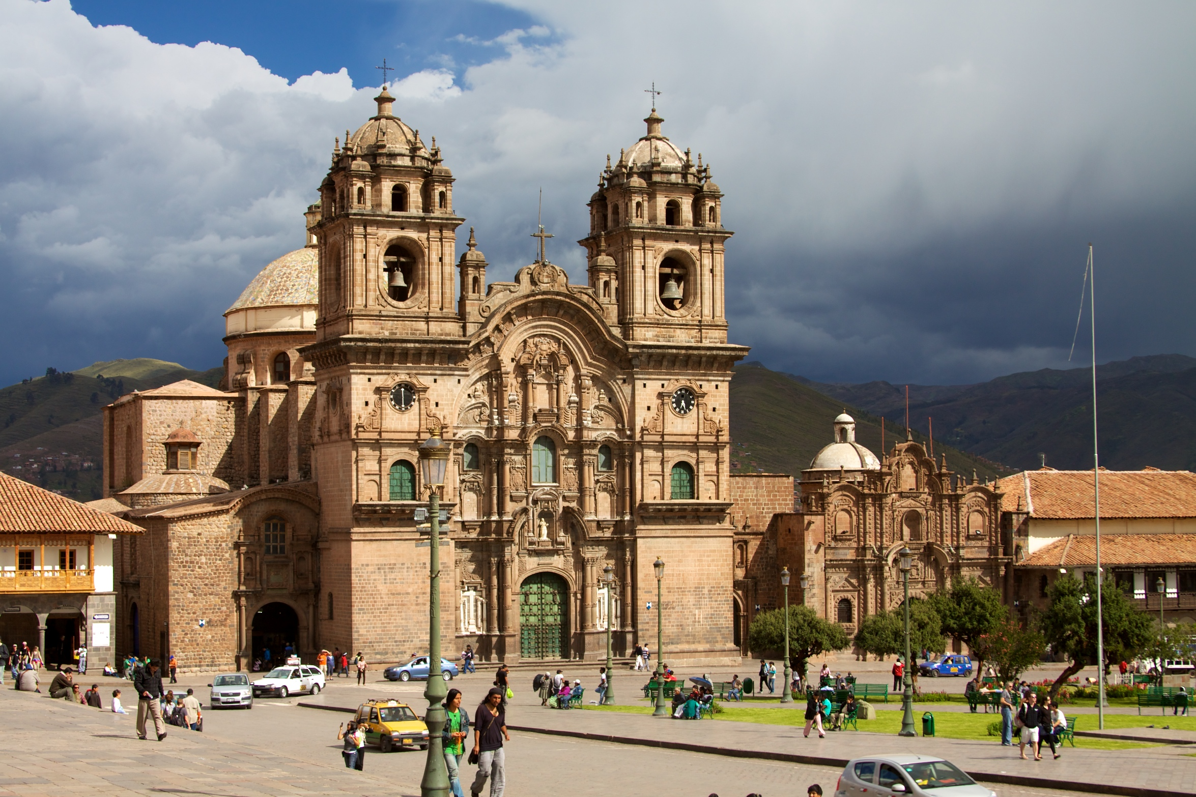 Taking up one side of Cusco's Plaza de Armas, the Iglesia de la Compañia de Jesús is an impressive and picturesque church.